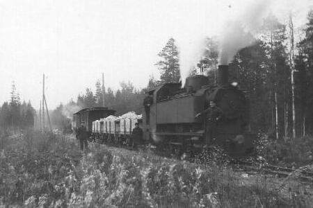 A steam locomotive, with limestone and passenger cars on the Virkkala–Ojamo railway in Finland in the 1930s